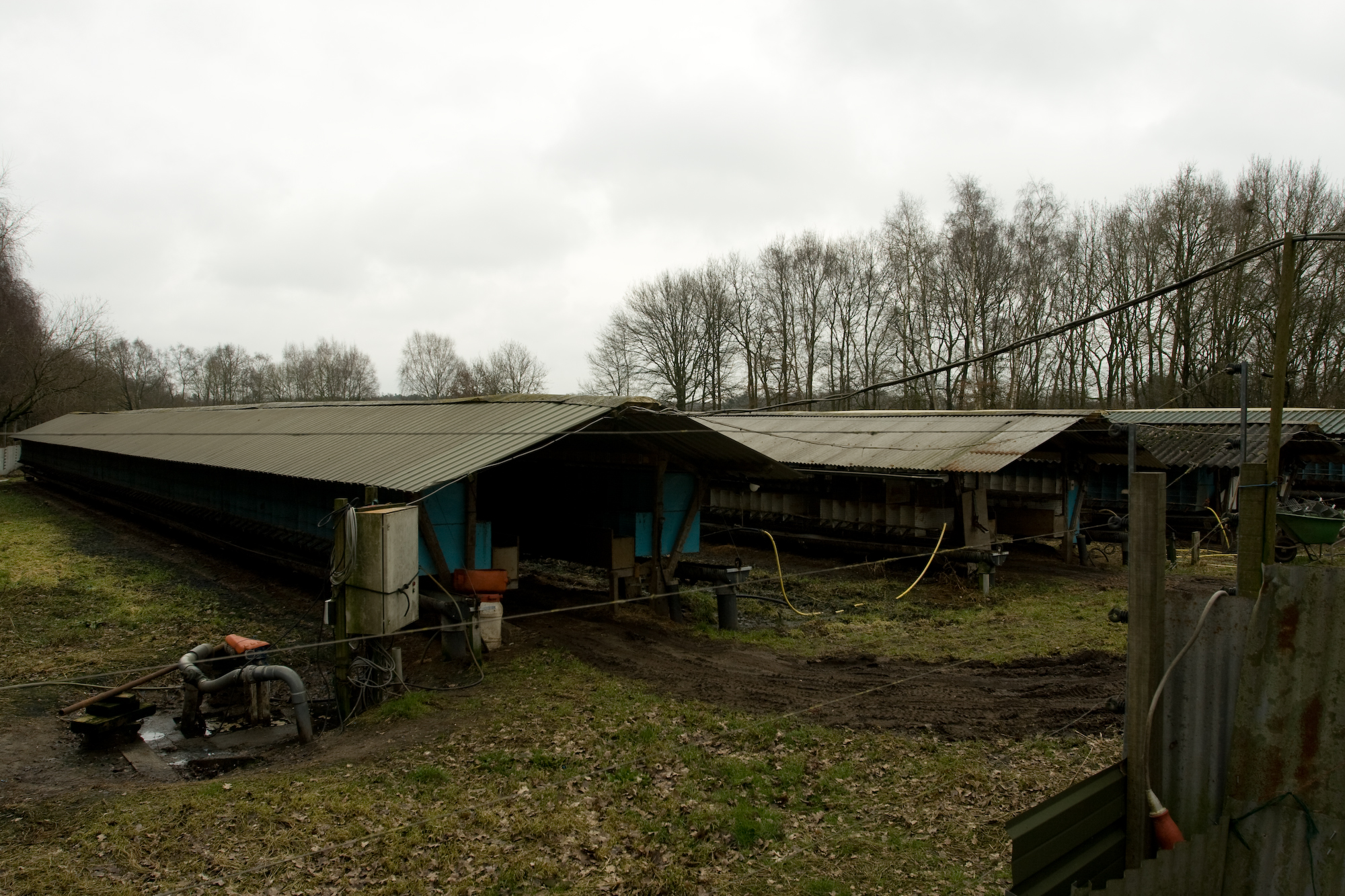 Mink farm in The Netherlands